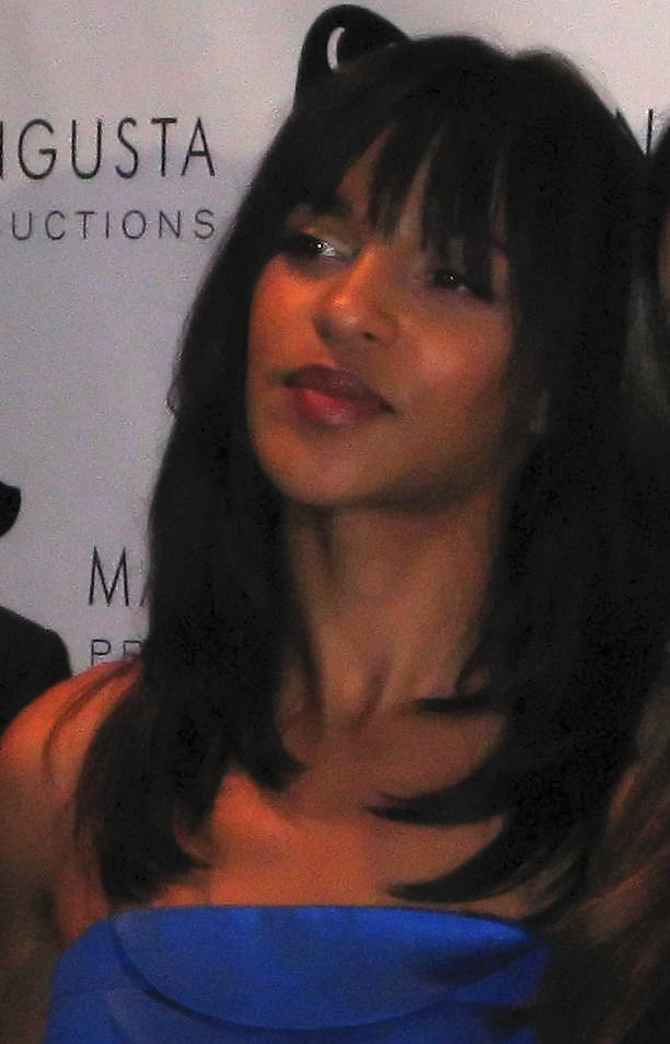 American actress Megalyn Echikunwoke.